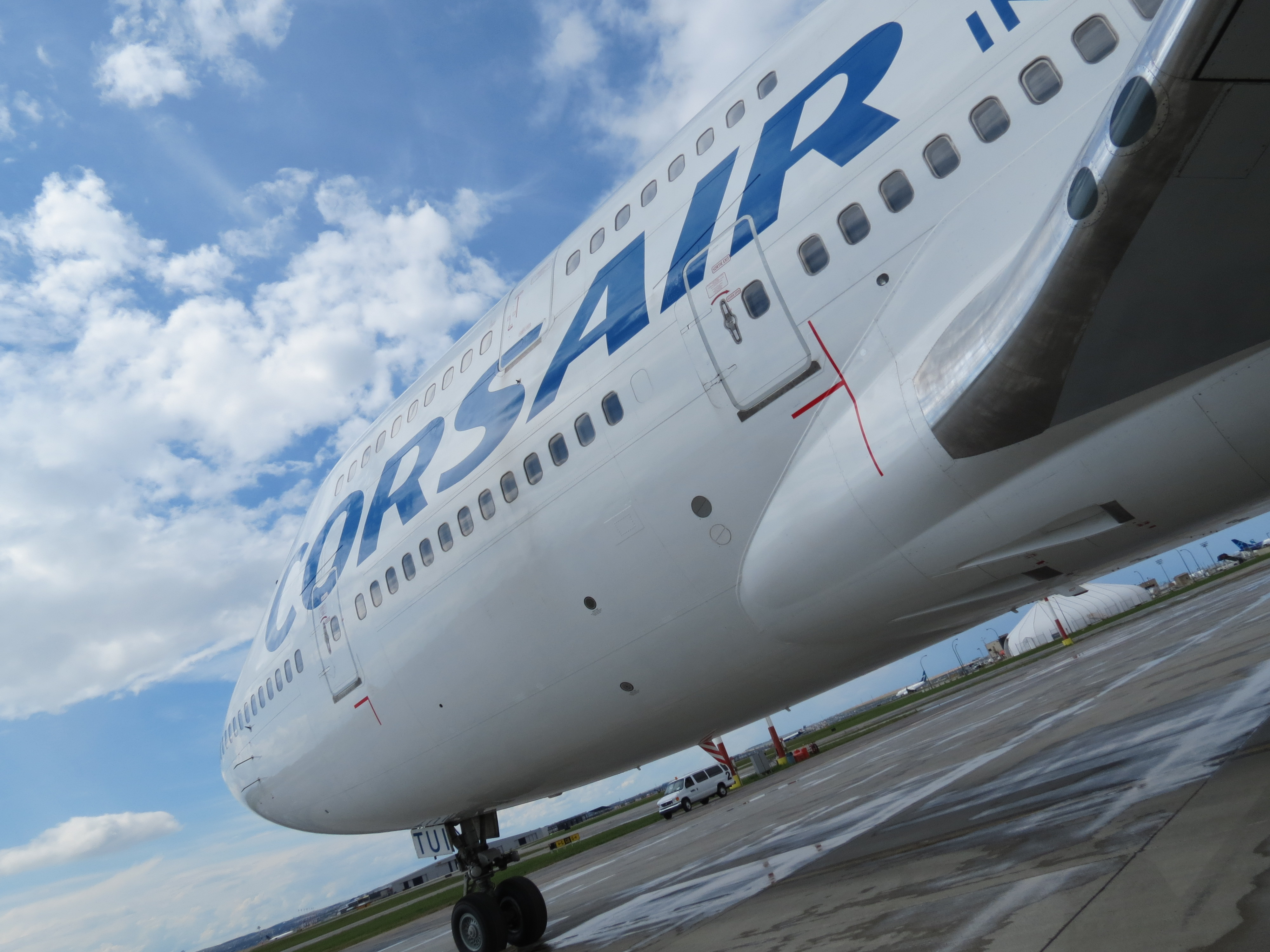 A nice surprise in YYC. We don't see too many pax 47's here so I just had to go and get some shots of her.